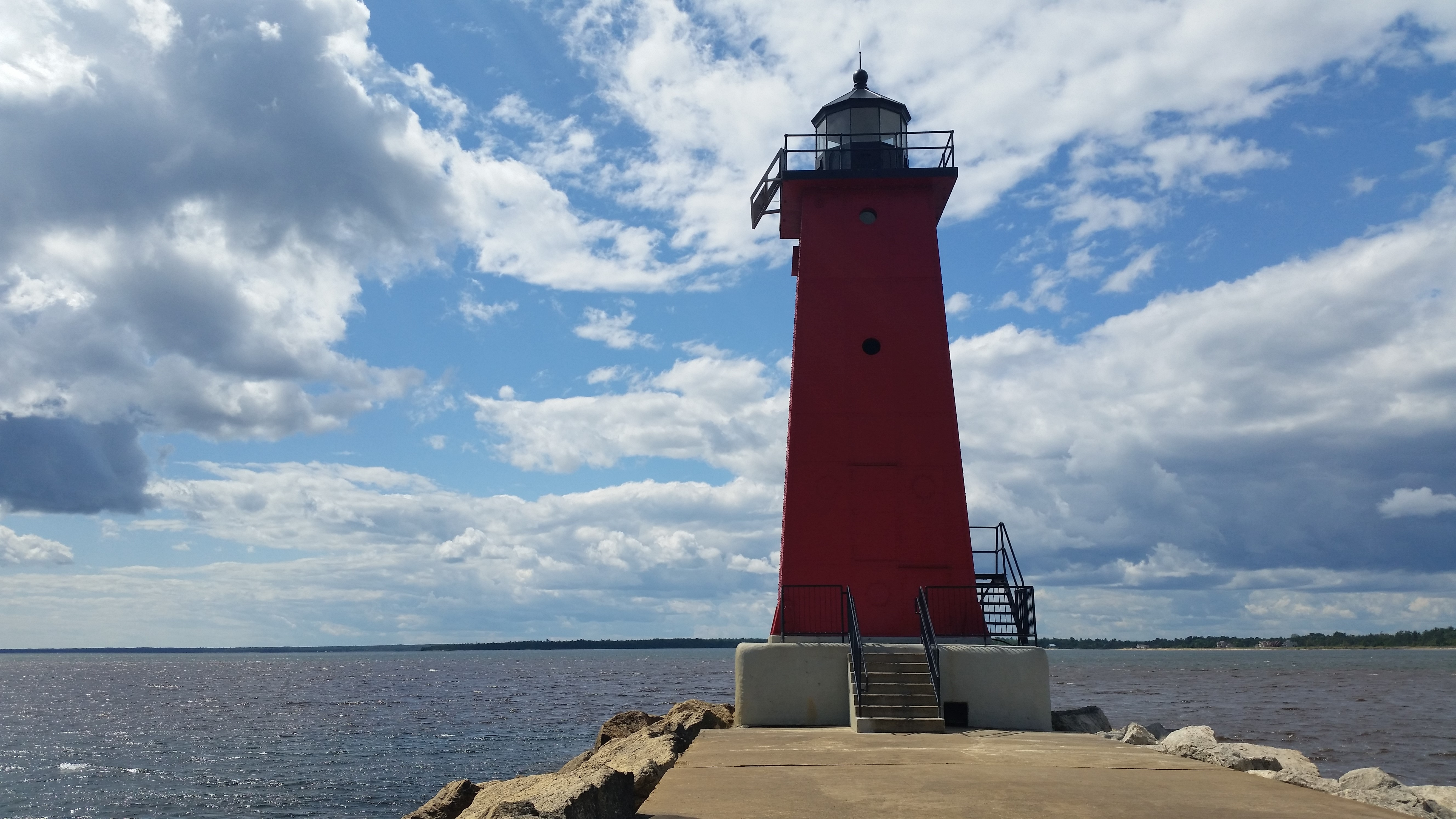 Depicted place: Manistique East Breakwater Light